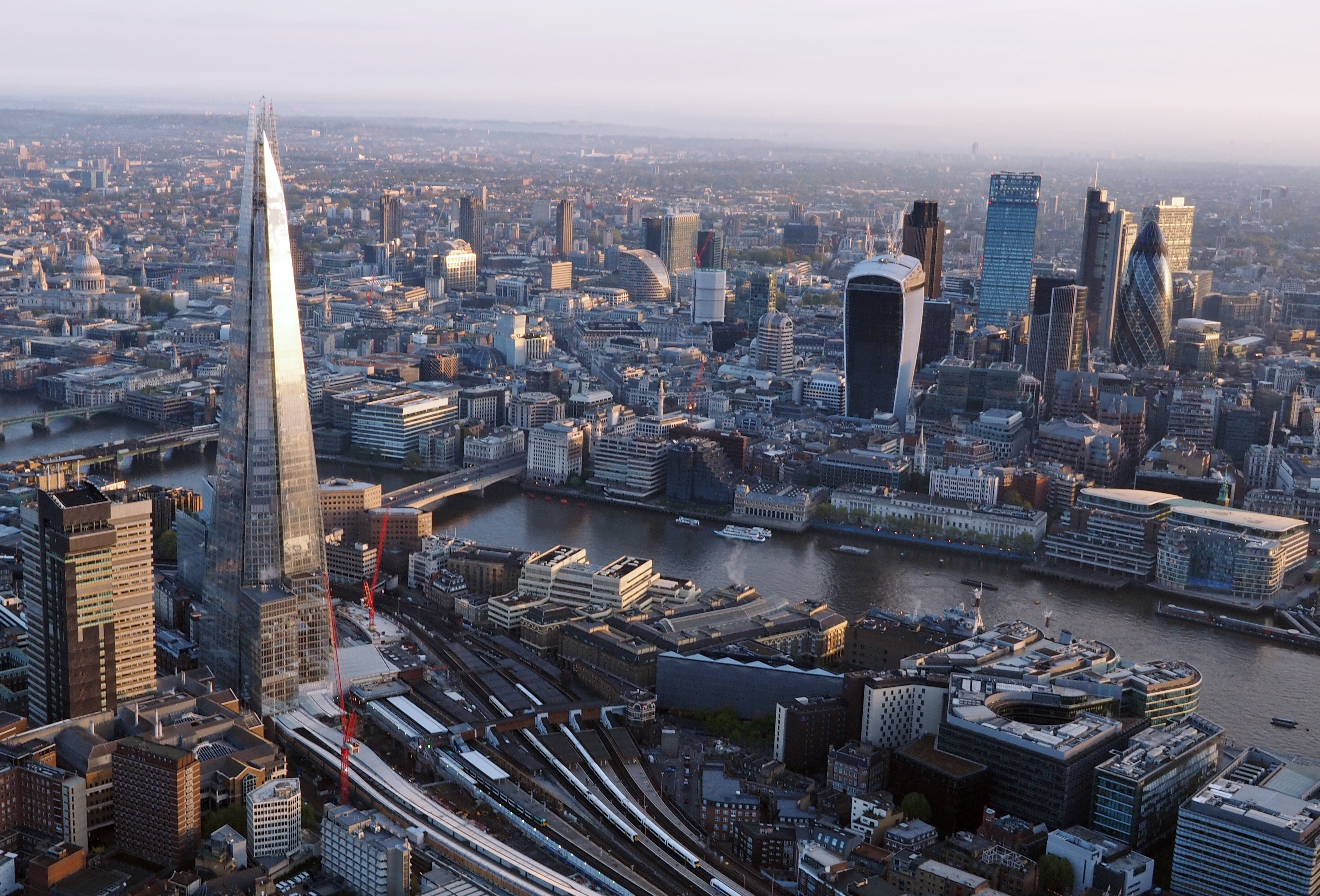 London bridge photo from hot air balloon. Hot air balloon flying over the city of London with views of the gherkin, Shard, London Bridge station